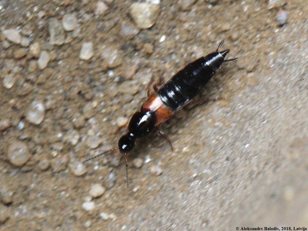 Philonthus rubripennis